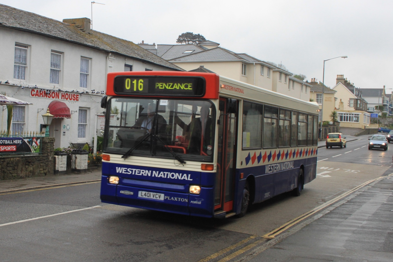 Former Western National 401, a Dennis Dart registered L401 VCV) in Market Jew Street during the 2014 Penzance Bus Running Day.